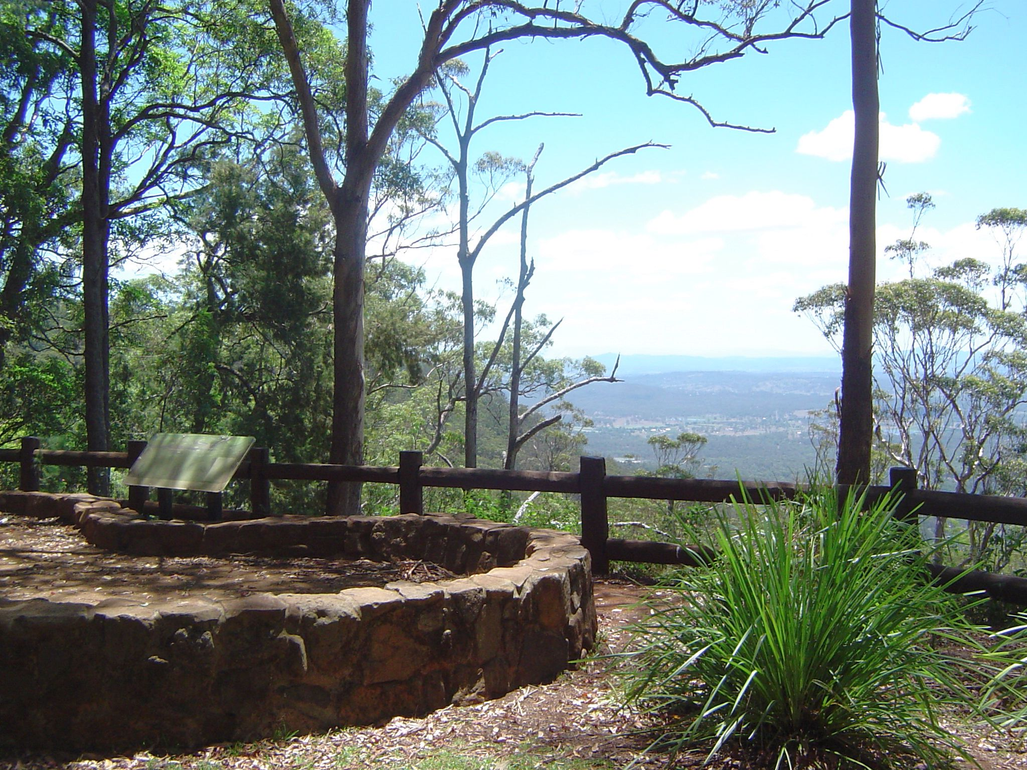 Photo looking north east from The Knoll Lookout, Tamborine Mountain, Queensland, Australia.